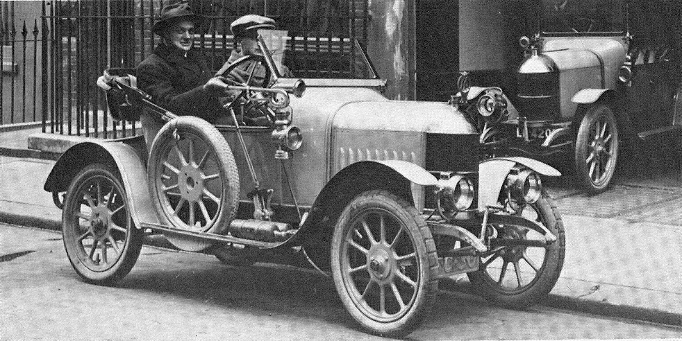 1913 Morris Oxford. (This version of image filtered to remove halftone and resultant moiré; no other changes).